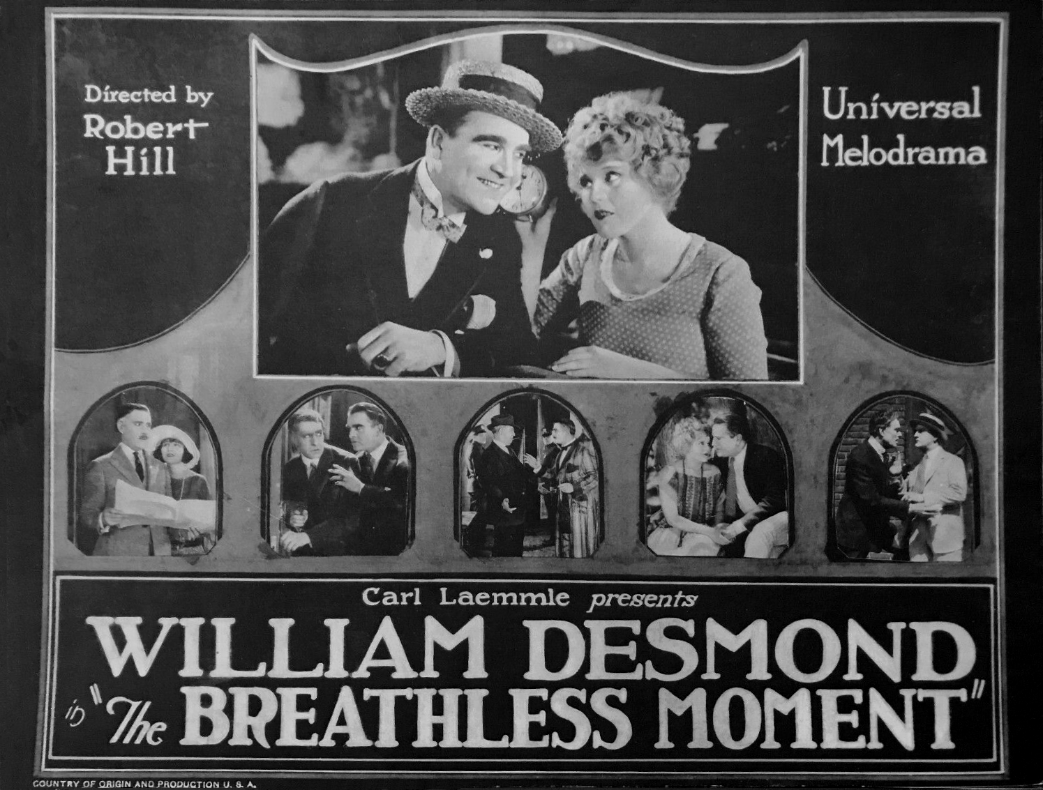 This is a lobby card for the American silent comedy crime film The Breathless Moment (1924).